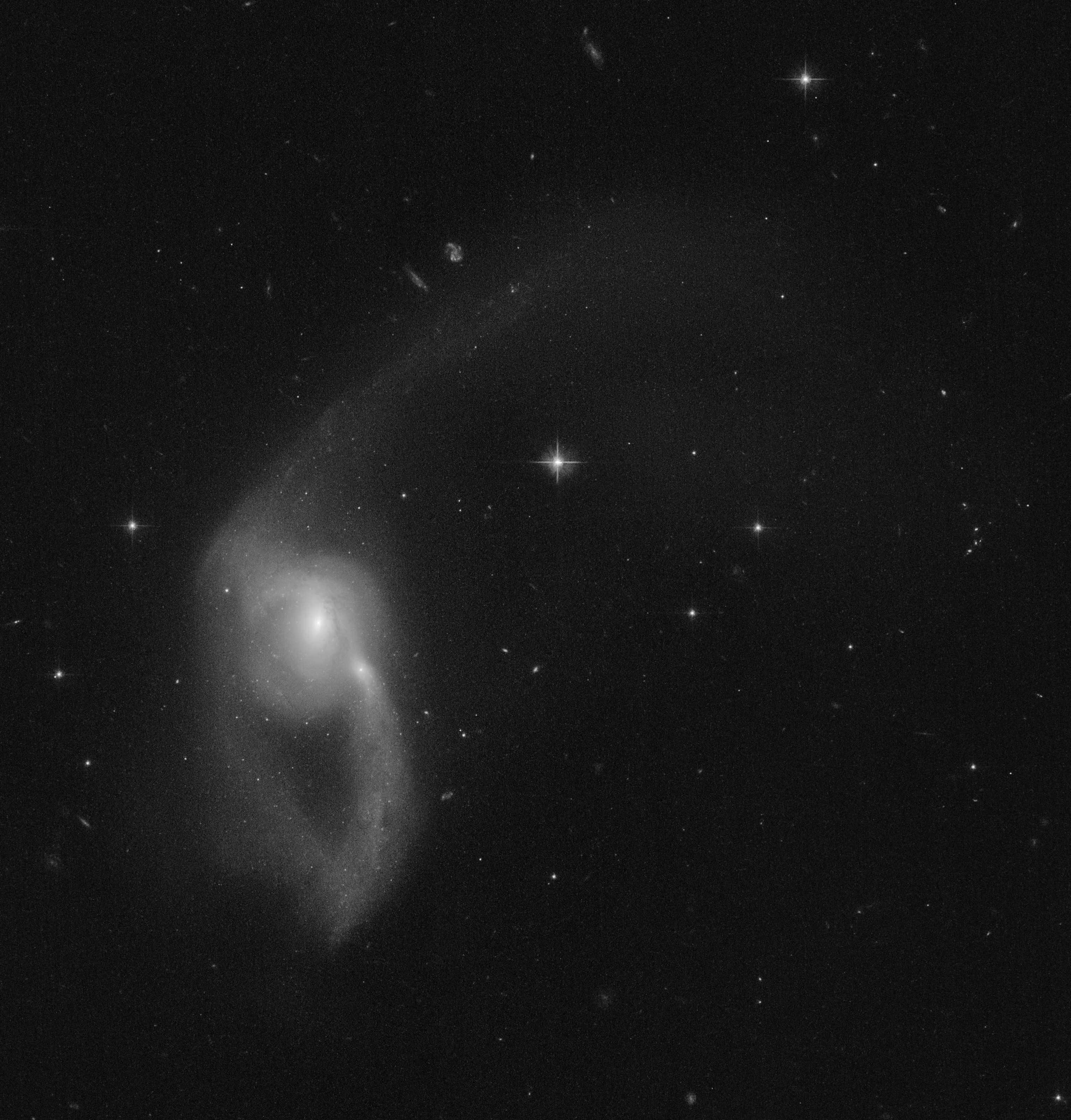 A delightful and unusual merger of galaxies, resulting in the comet-like appearance of one galaxy. Only a small amount of dust is visible, but many small dots which I presume are globular clusters are sprinkled within the pair. Edit: Upon looking at the color data, the clusters may be younger clusters, not necessarily globulars. It's bluer than I expected, which would indicate that star formation has been going on. A color and widefield view is available in SDSS data at the Legacy Survey viewer: Data from the following proposal is used to create this image: Establishing HST's Low Redshift Archive of Interacting Systems All channels: ACS/WFC F606W North is 12.84° clockwise from up.